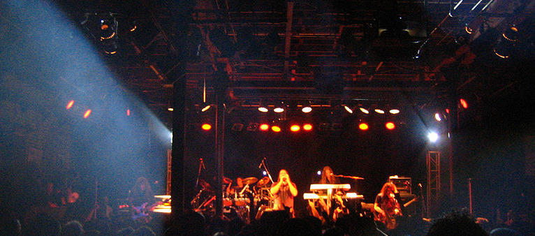 Symphony X live at Slim's, Sunday, July 29, 2007